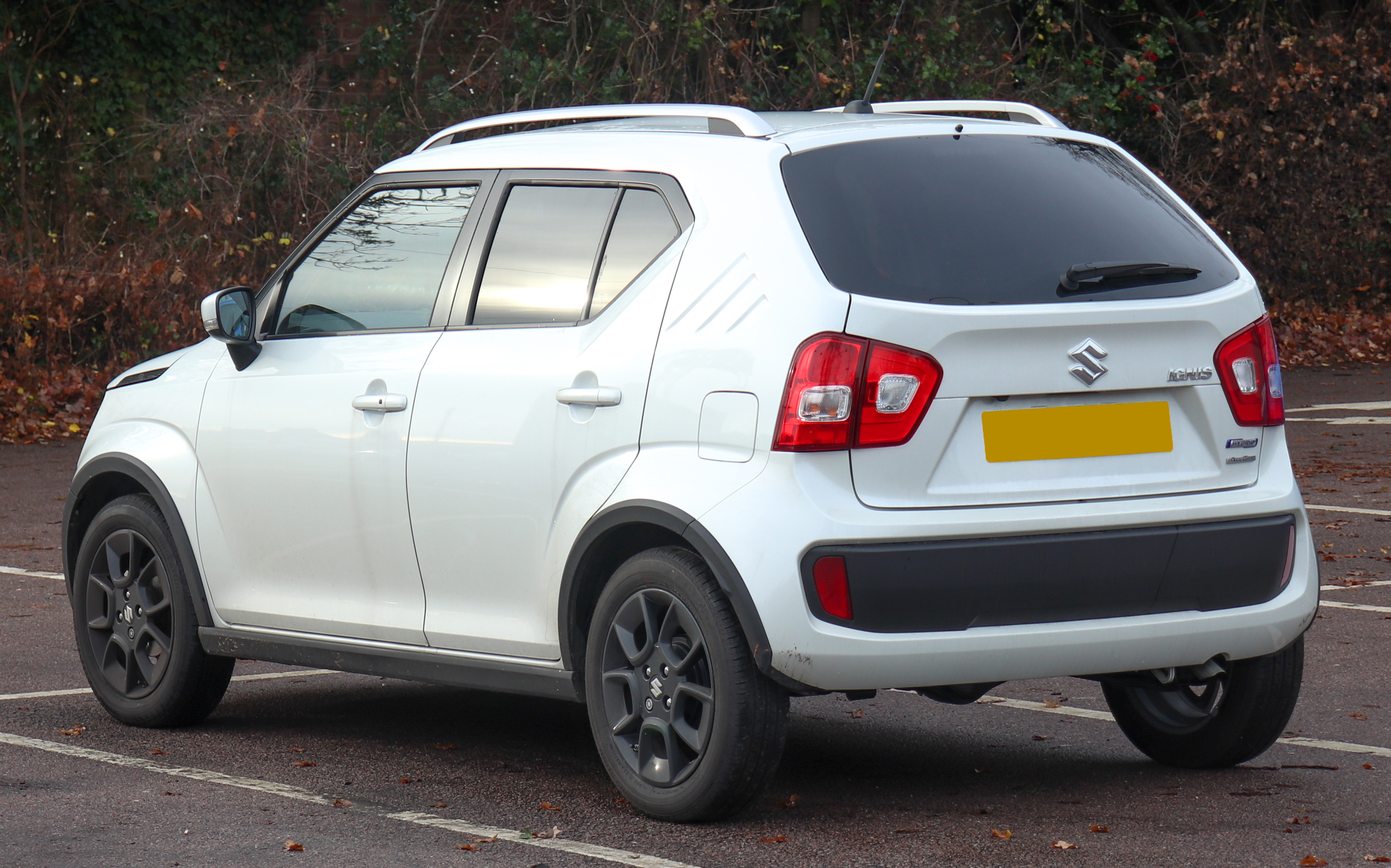 2018 Suzuki Ignis SZ5 SHVS Allgrip 1.2 Rear